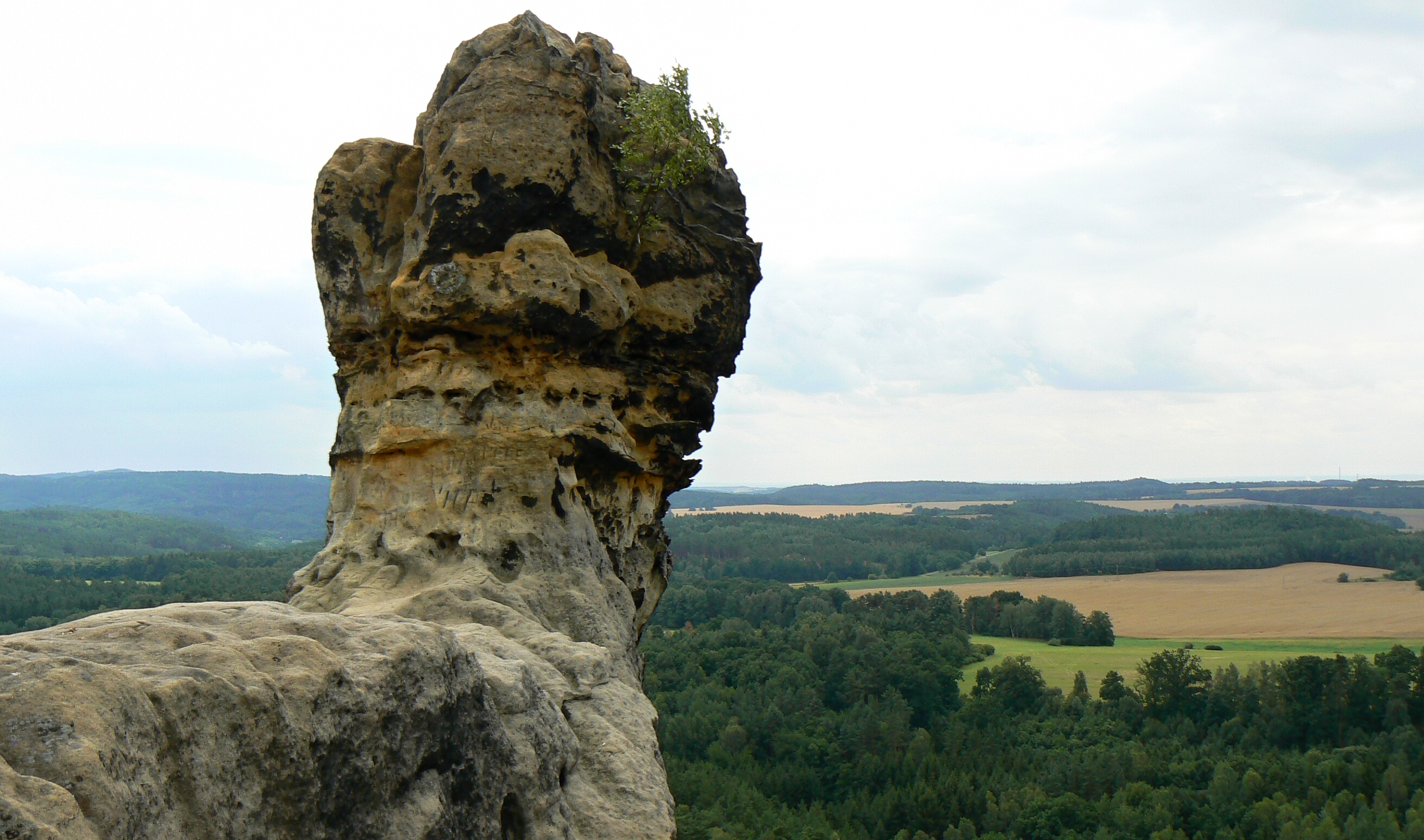 Sandstone rock named "Čapská palice" in Landscape Park Kokořínsko, Česká Lípa District